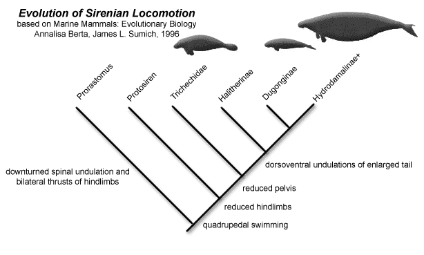 Created by Sharon Mooney for Wikipedia, based on Marine Mammals: Evolutionary Biology, Annalisa Berta, James L. Sumich based on Daryl P. Domning, 1996 Image may be re-distributed on condition all original credits are kept intact.